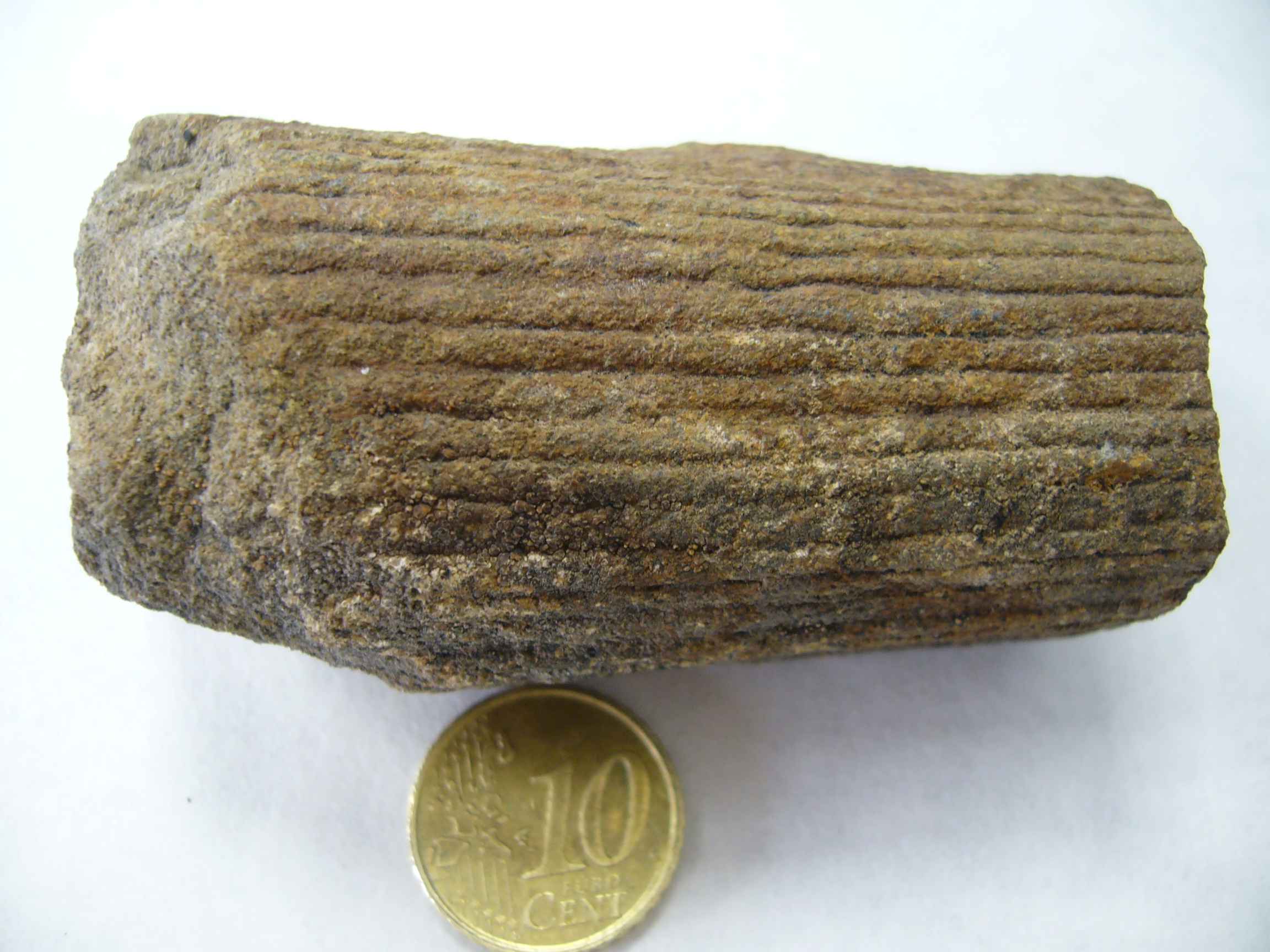 Calamites sp. fossil (Carboniferous), in a laboratory of practices of the Faculty of Sciences of the University of Corunna.